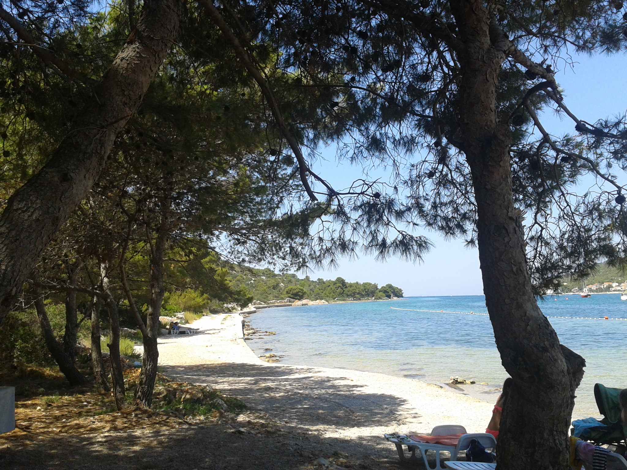 Kaprije - crushed rock beach - along a pinewood